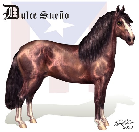 a Drawing of the Famous Puerto Rican Paso Fino Stallion Dulce Sueño, born in 1927 in Guayama Puerto Rico. Dulce Sueño, went on to become the most influencias sire of his era